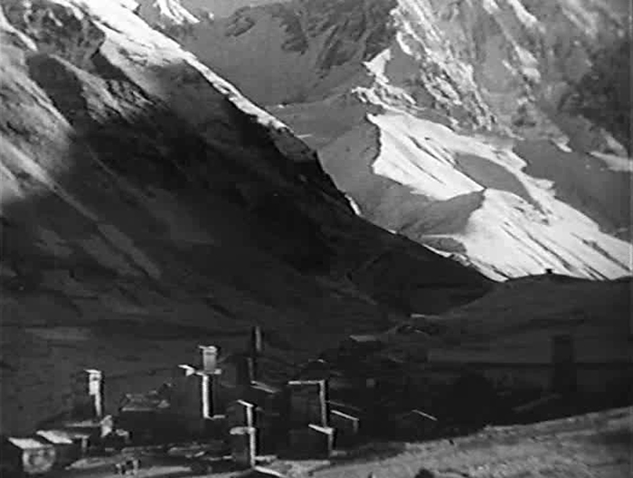 Screenshot from the Soviet documentary film Salt for Svanetia (1930)